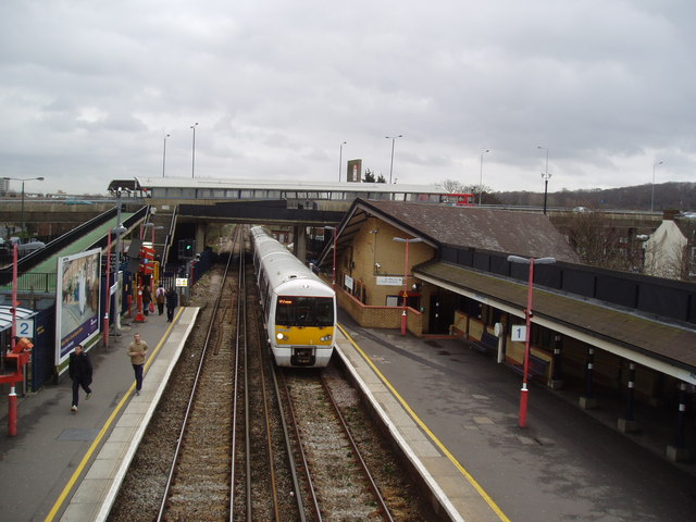 Abbey Wood station. A new Class 376 unit heads an up service to London Charing Cross.